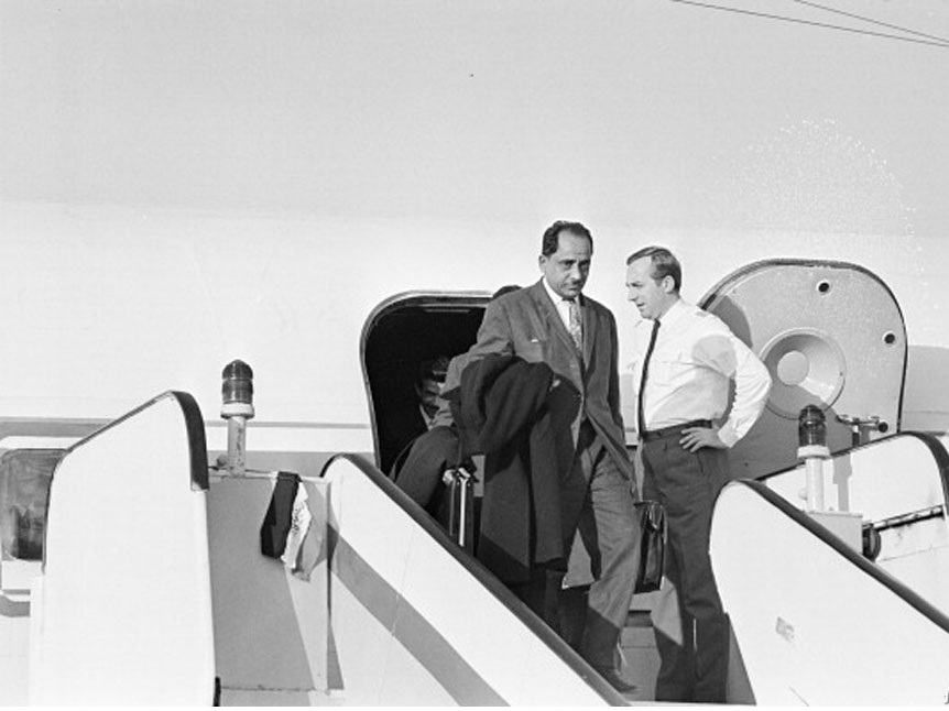 President Qahtan Al-Shaabi of South Yemen in 1967